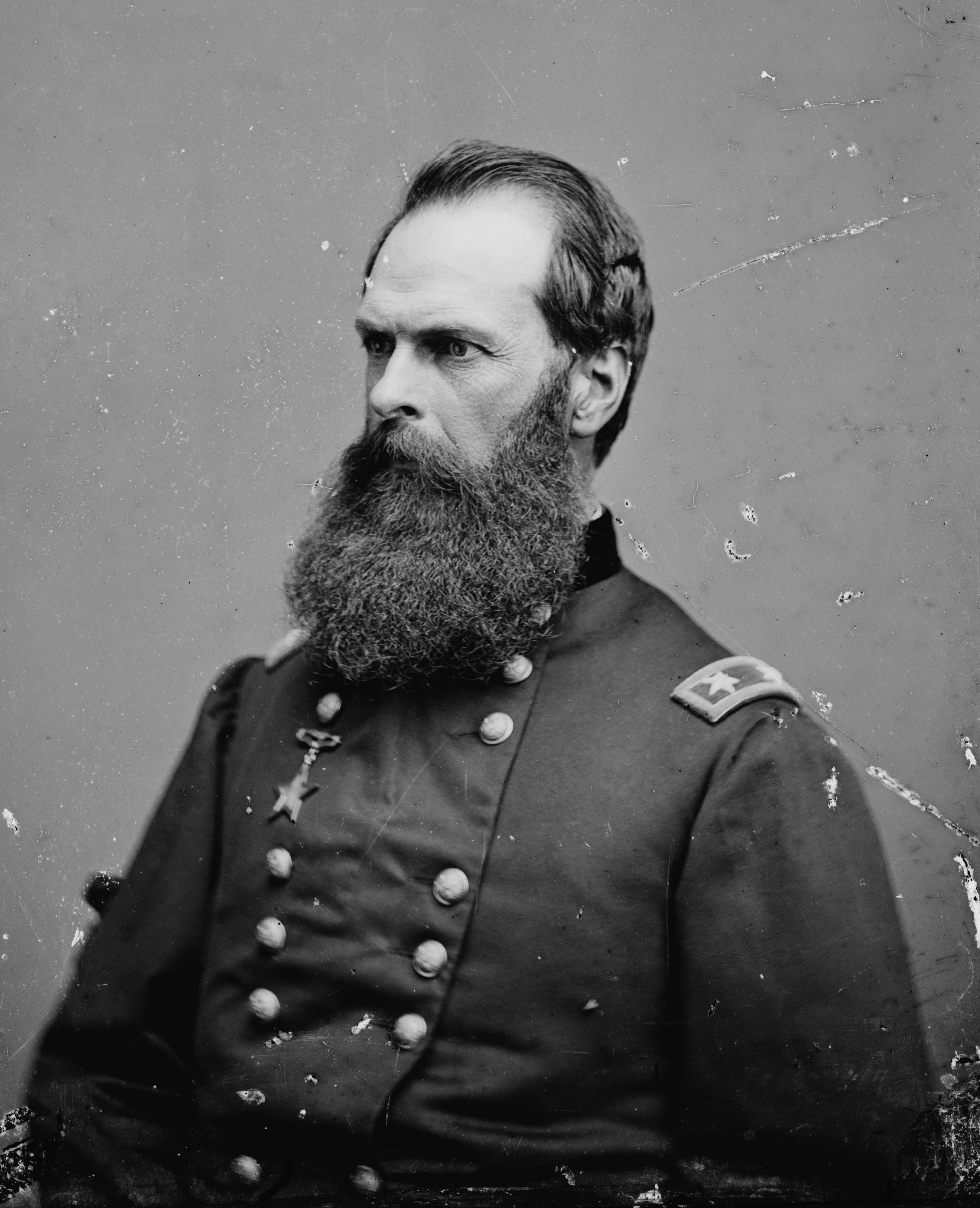 John W. Geary. Library of Congress description: "Gen. J. W. Geary"